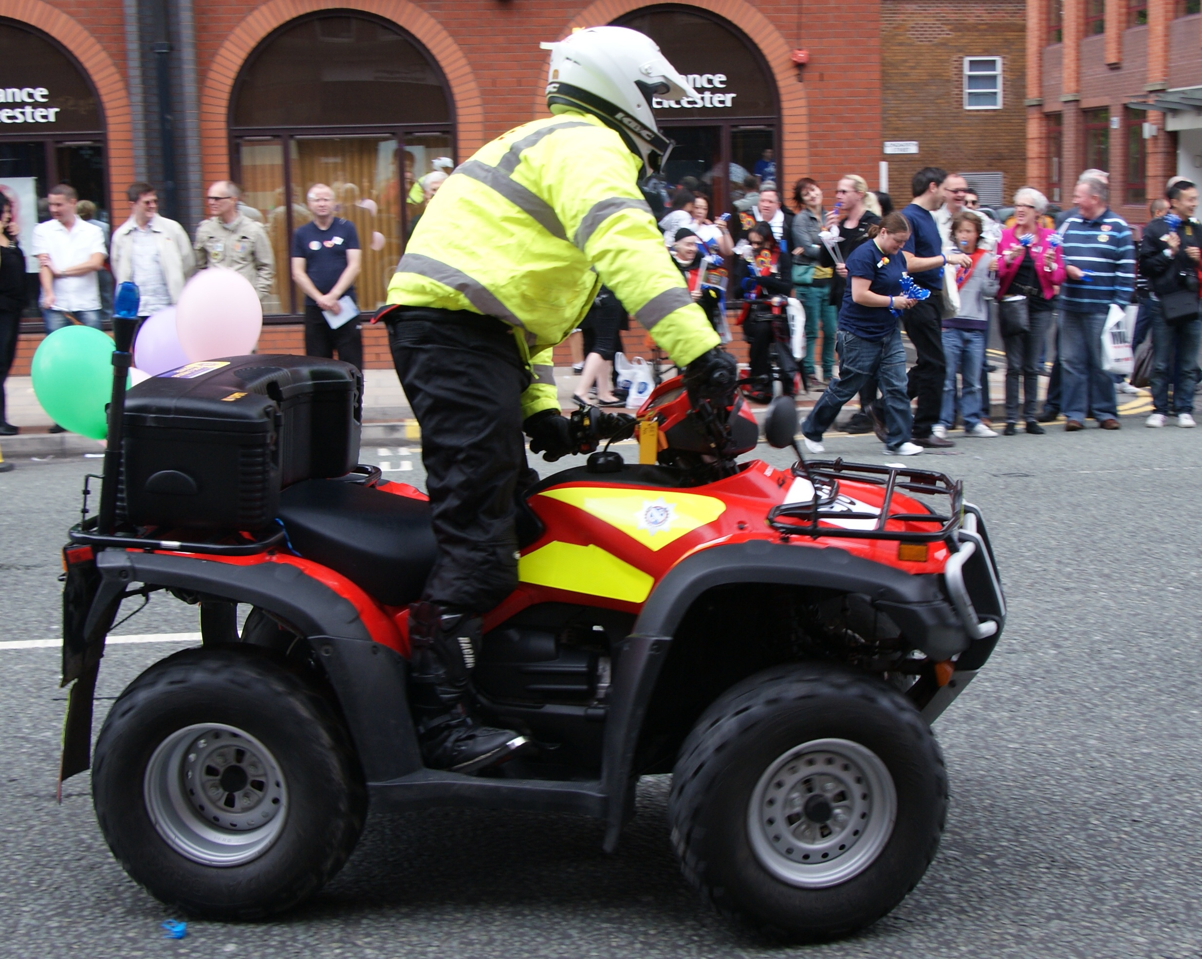 Manchester Pride 2009: A Fire Service quad bike